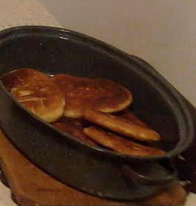 Here is a picture of cooked Fried Jacks